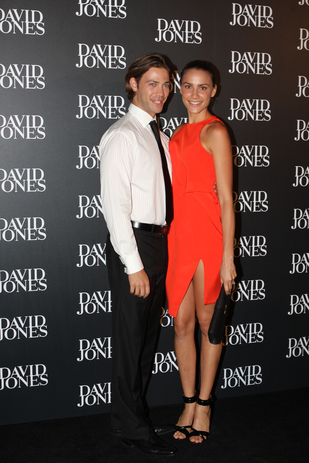 David Jones Autumn Winter Launch With Miranda Kerr At David Jones Sydney